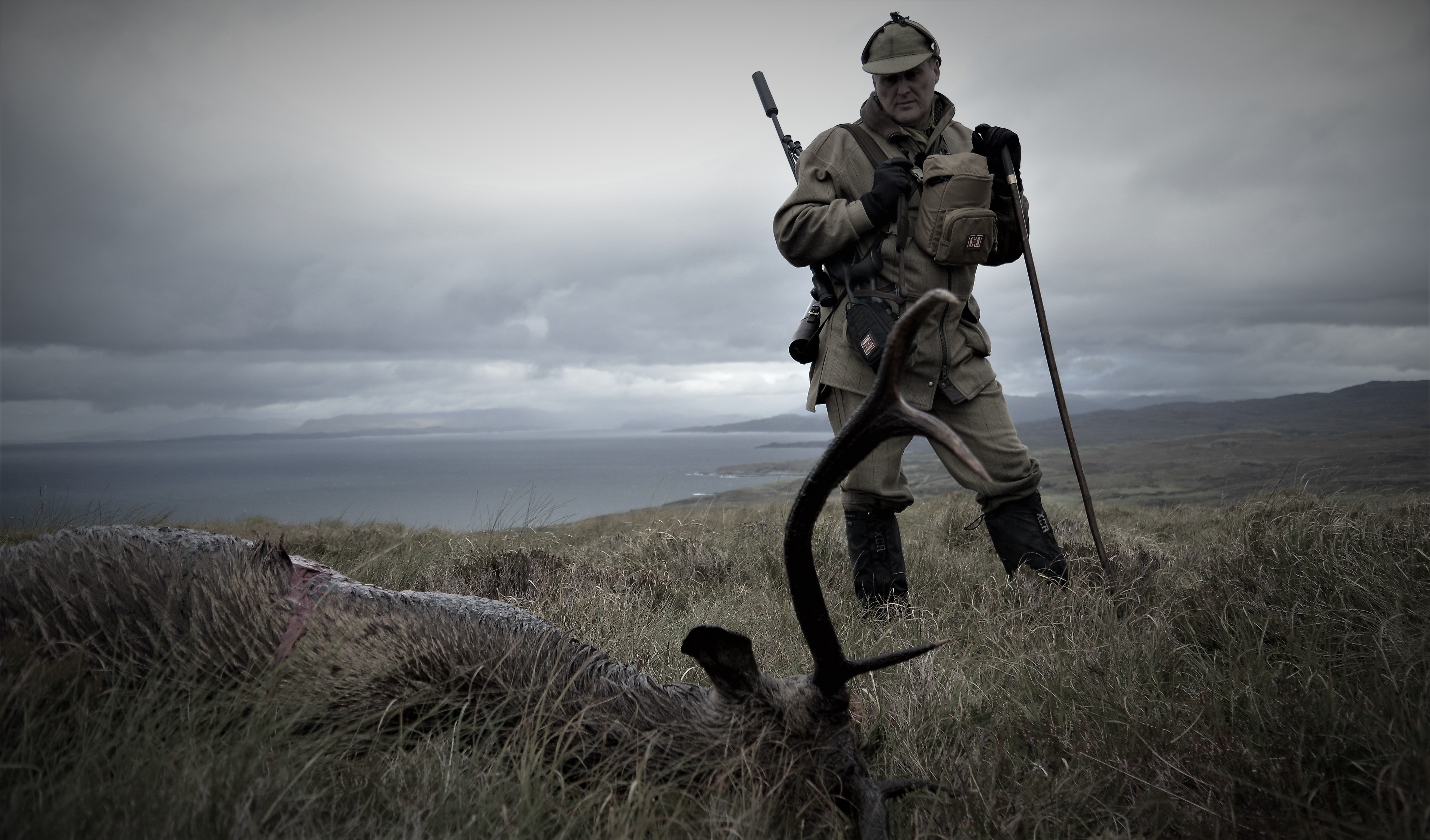 Niall Rowantree, professional stalker and gamekeeper of West Highland Hunting, standing next to a filthy red deer stag shot by a guest hunter on Ardnamurchan Estate in Scotland during the rut, 2017